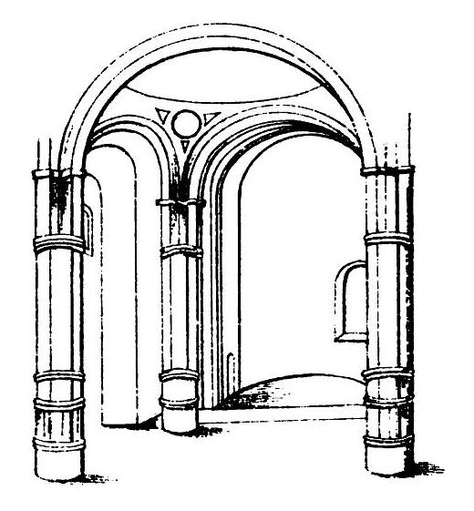 The Tbeti church interior. The drawing was made by Colonel Giorgi Kazbegi during his reconnaissance journey to Ottoman Georgia in 1873